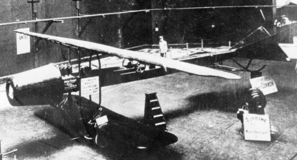 Monochrome photograph of the aircraft exhibited by Henri Coanda at the 2nd International Aviation Exhibition in Paris, 1910.